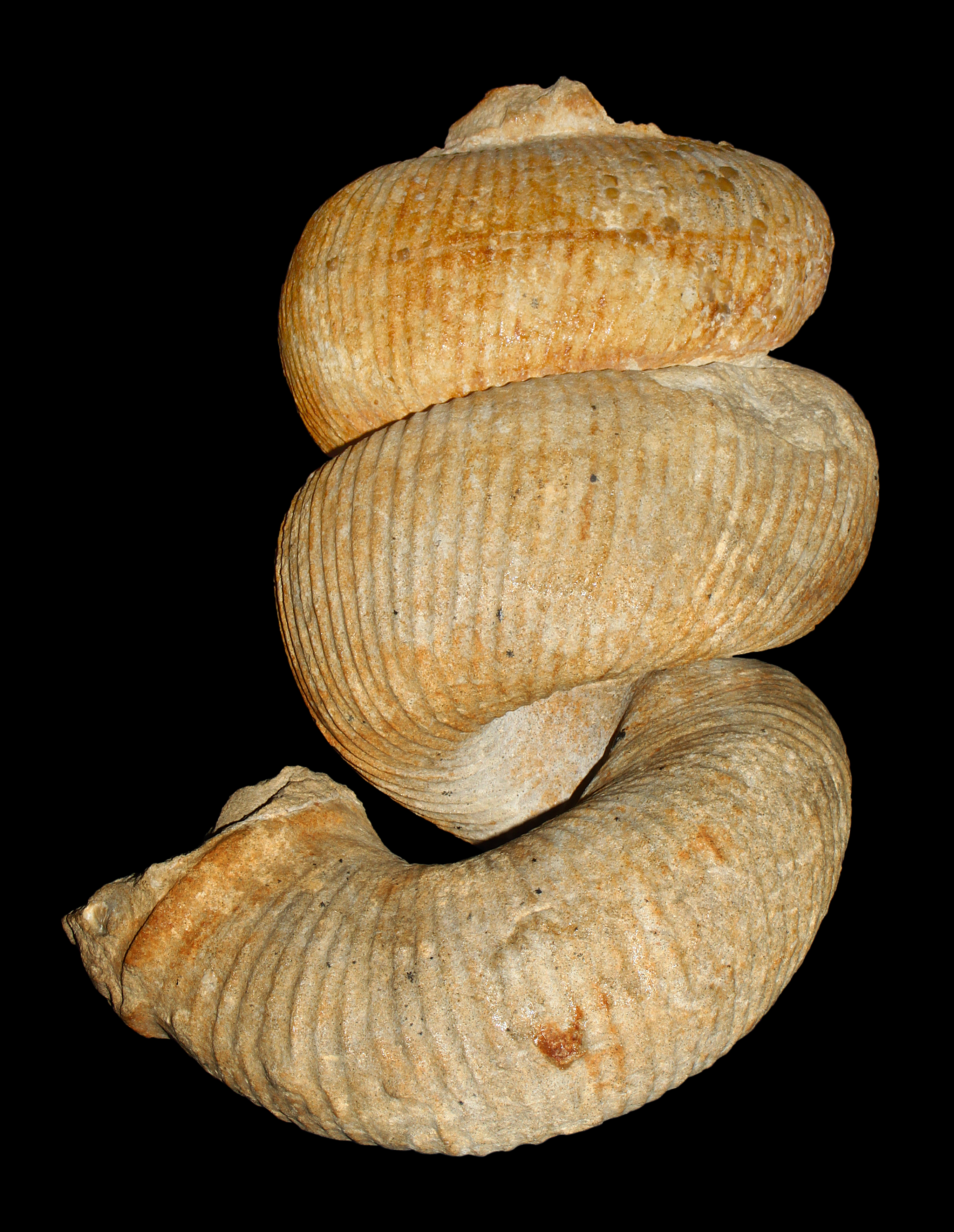 Length about 20 cm; Campanian, Upper Cretaceous; Haldem, Germany; Museum für Naturkunde Berlin.